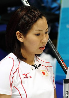 Anna Ohmiya; 2010 Vancouver Olympic Games - Women's Curling - Preliminary from Vancouver Olympic Centre